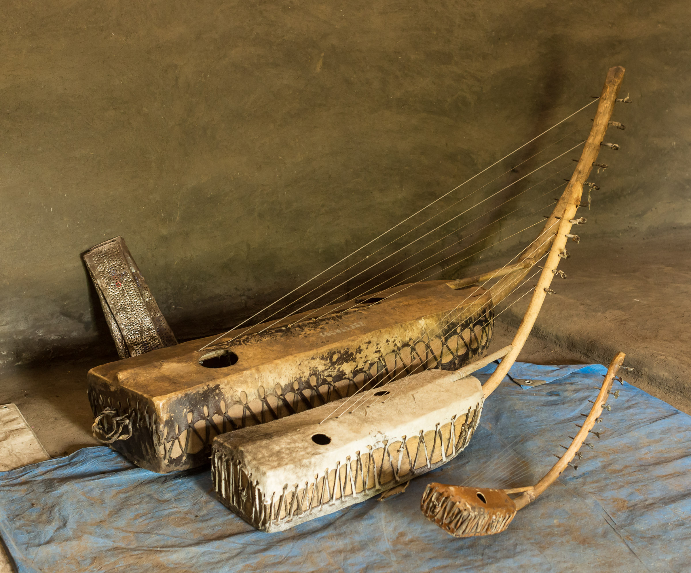 Three varying sizes of the stringed musical instrument of northwestern Uganda called an adungu, ekidongo, or ennenga. The large adungu creates an incredibly rich, bass sound. Photo taken at a Baptist church in Adjumani Refugee Settlement, Uganda.